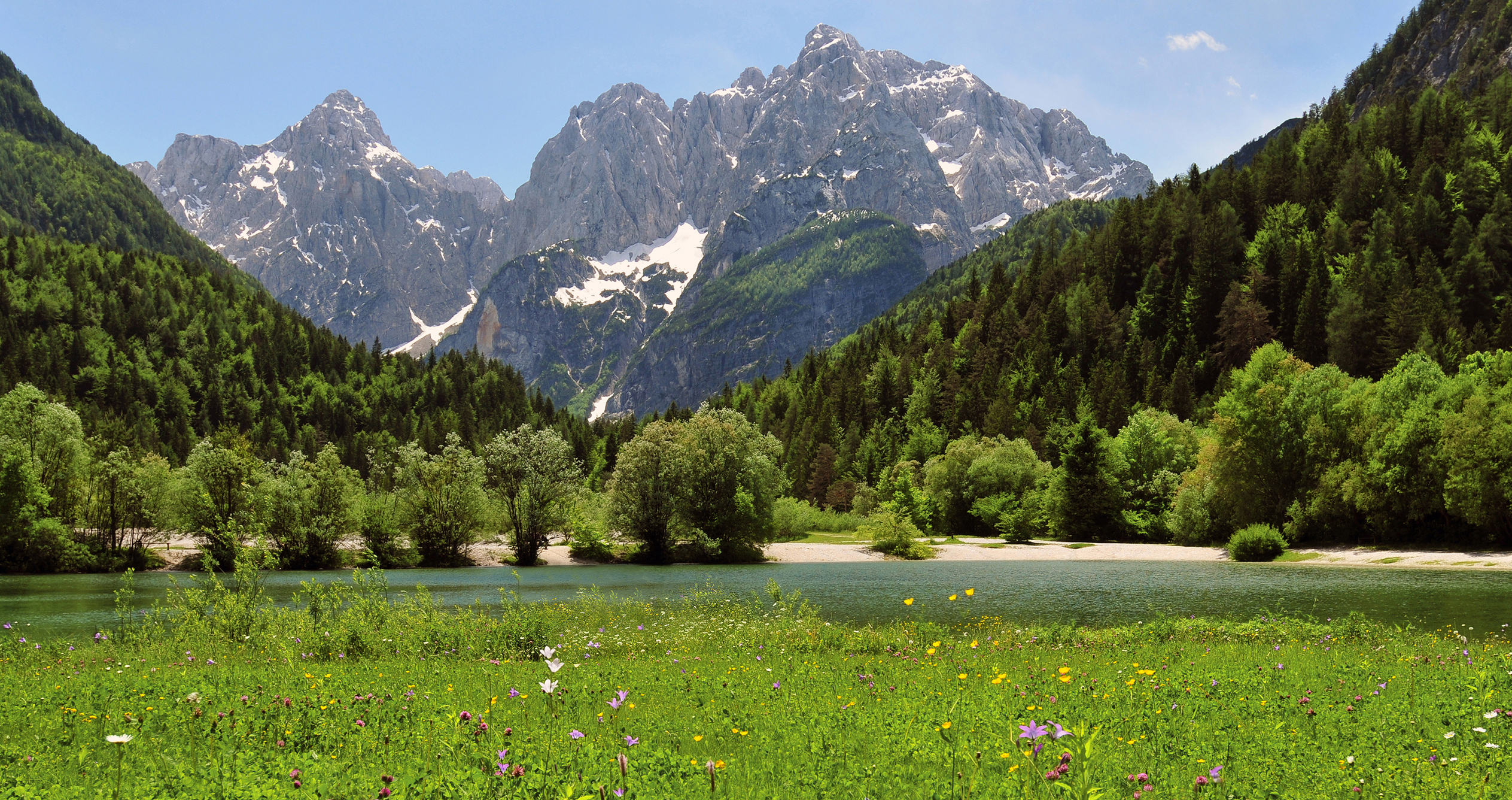 View from the town Kranjska Gora in north-west Slovenia across Lake Jasna to the Julian Alps with Razor (left) and Prisojnik (right).